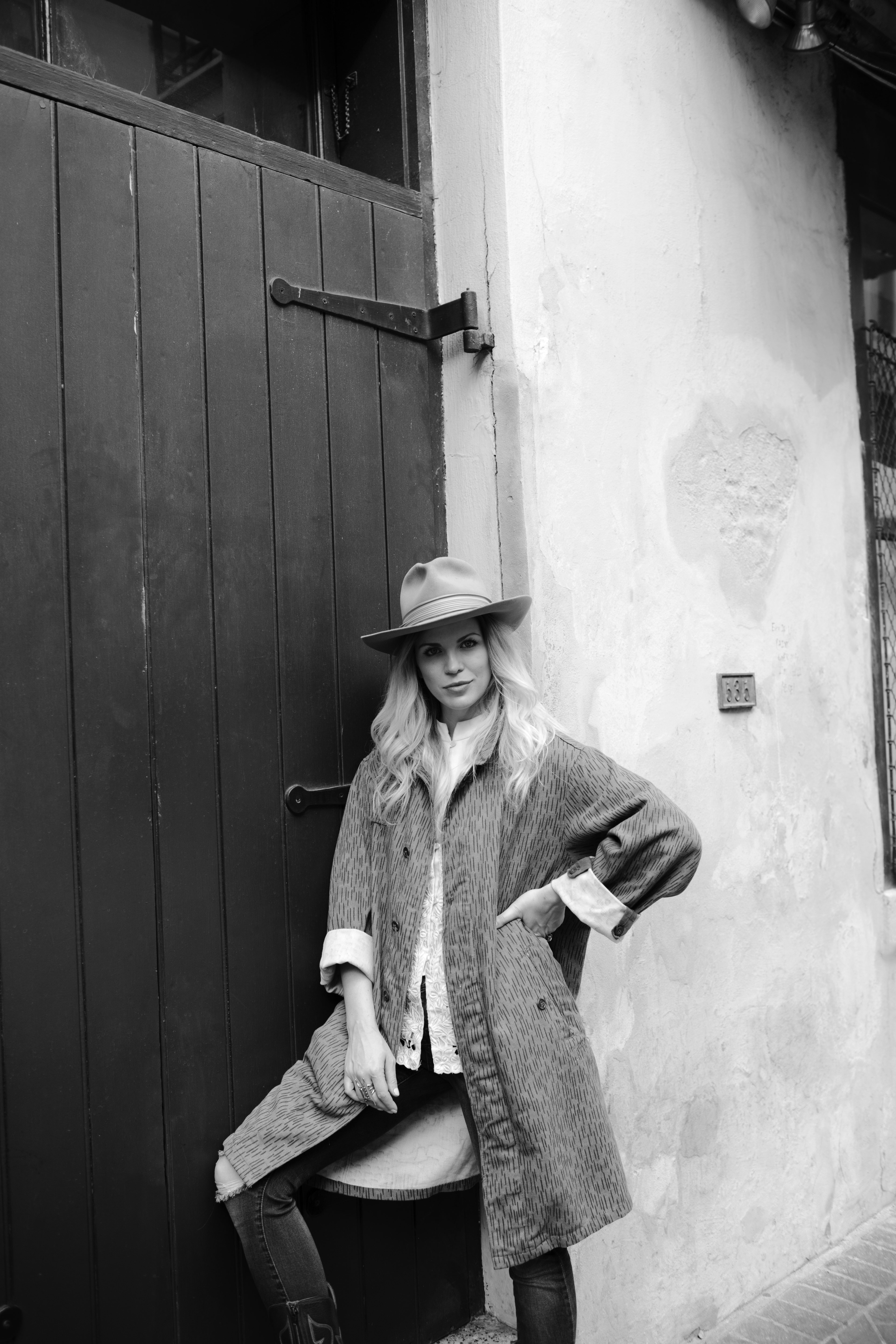 Photographer: Nathan Rocky